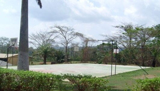 basketball court